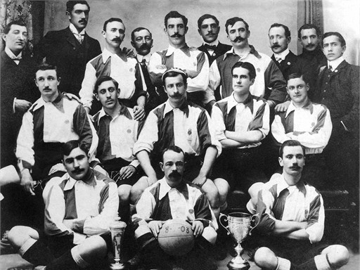 Spanish Athletic Club (mostly known as Athletic de Bilbao) team of 1903, with both trophies won that year: Copa del Rey and Copa de la Coronación.